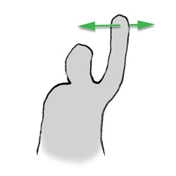 An example on how to take a back-to-back dualphoto: from the top.